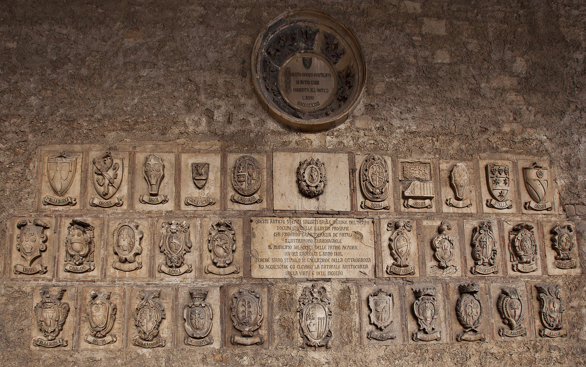 The coats of arms of the city's noble families under the portico on the south wall of the Santa Maria Maggiore church in Guardiagrele, IT